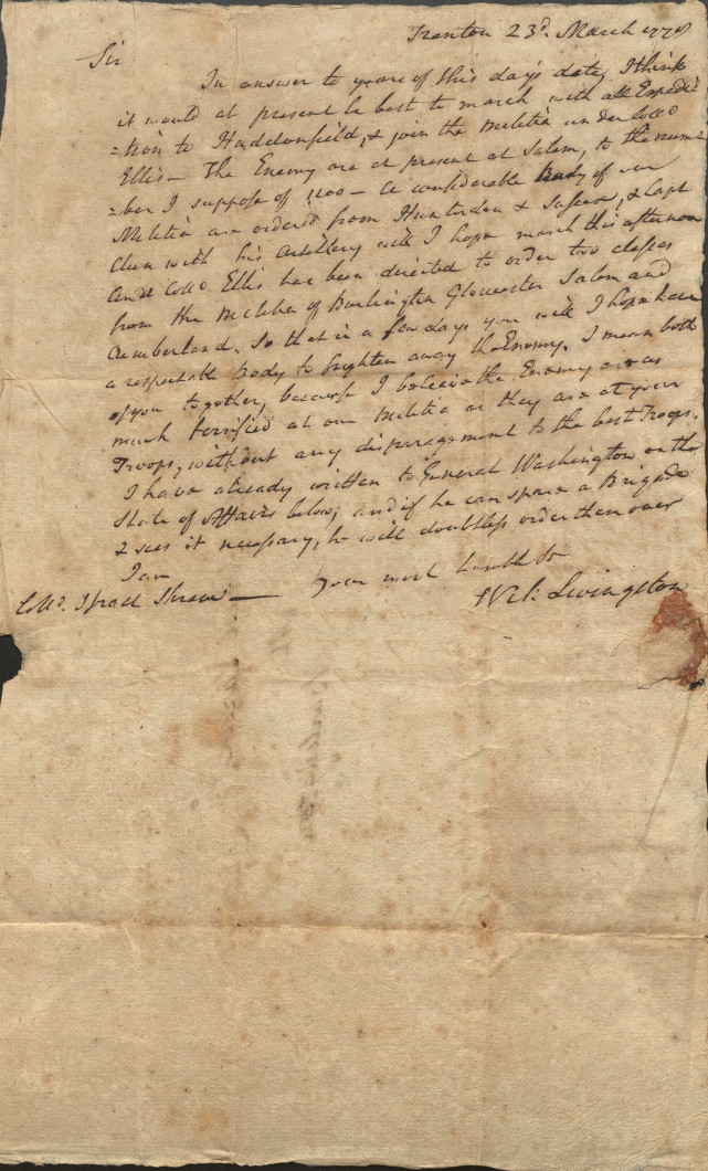 Correspondence from Governor William Livingston to Shreve on March 23, 1778. Sent from Trenton.